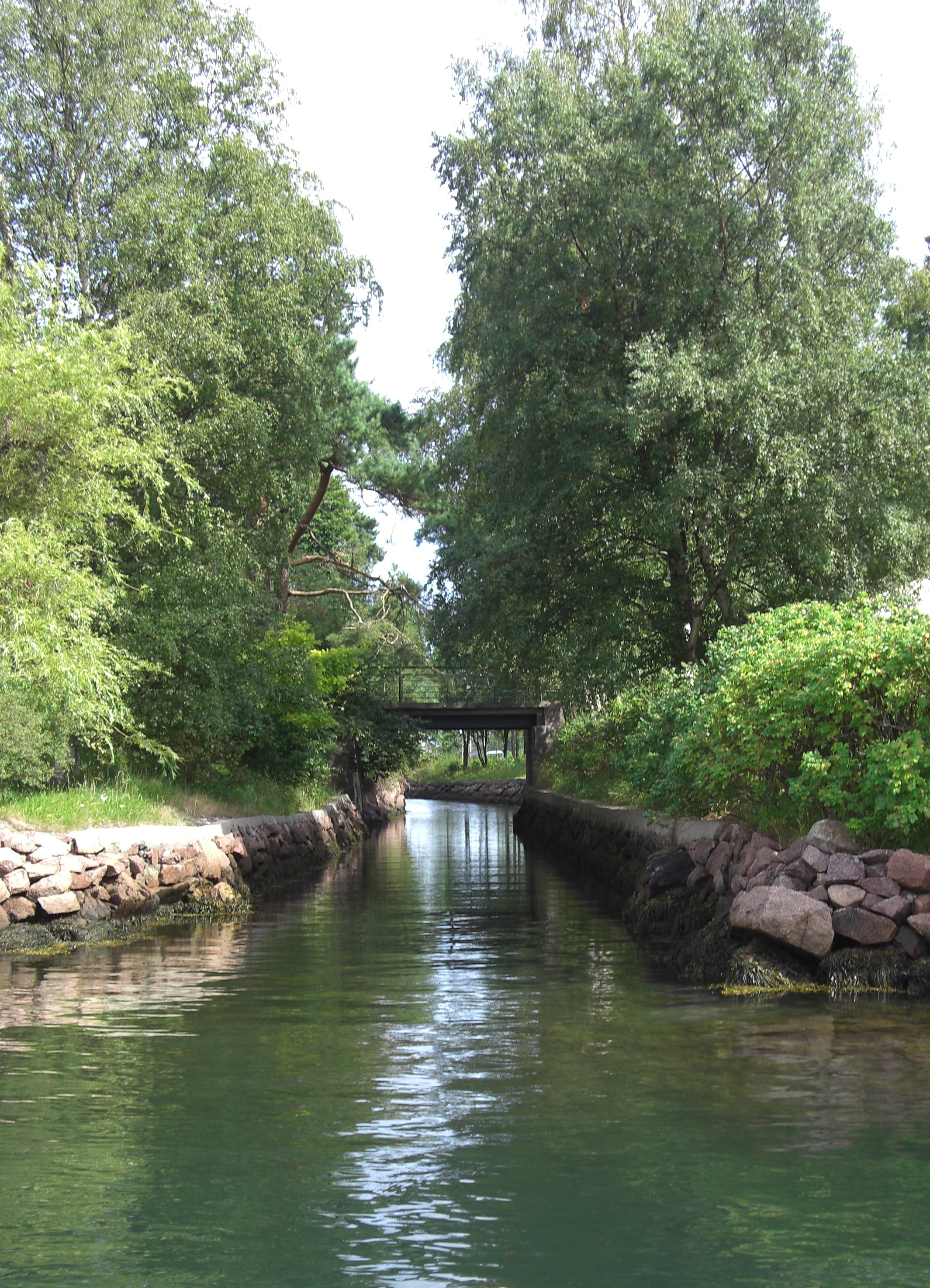 Hesneskanalen, Grimstad